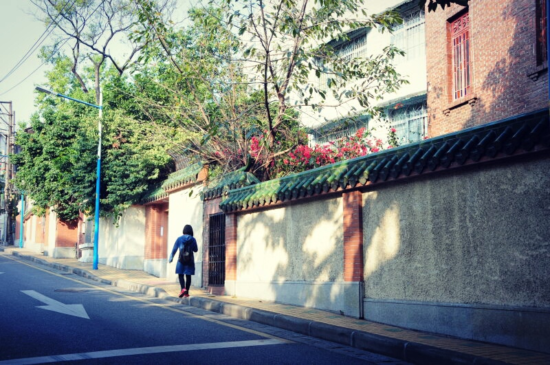 A slient and beautiful street in Dongshankou